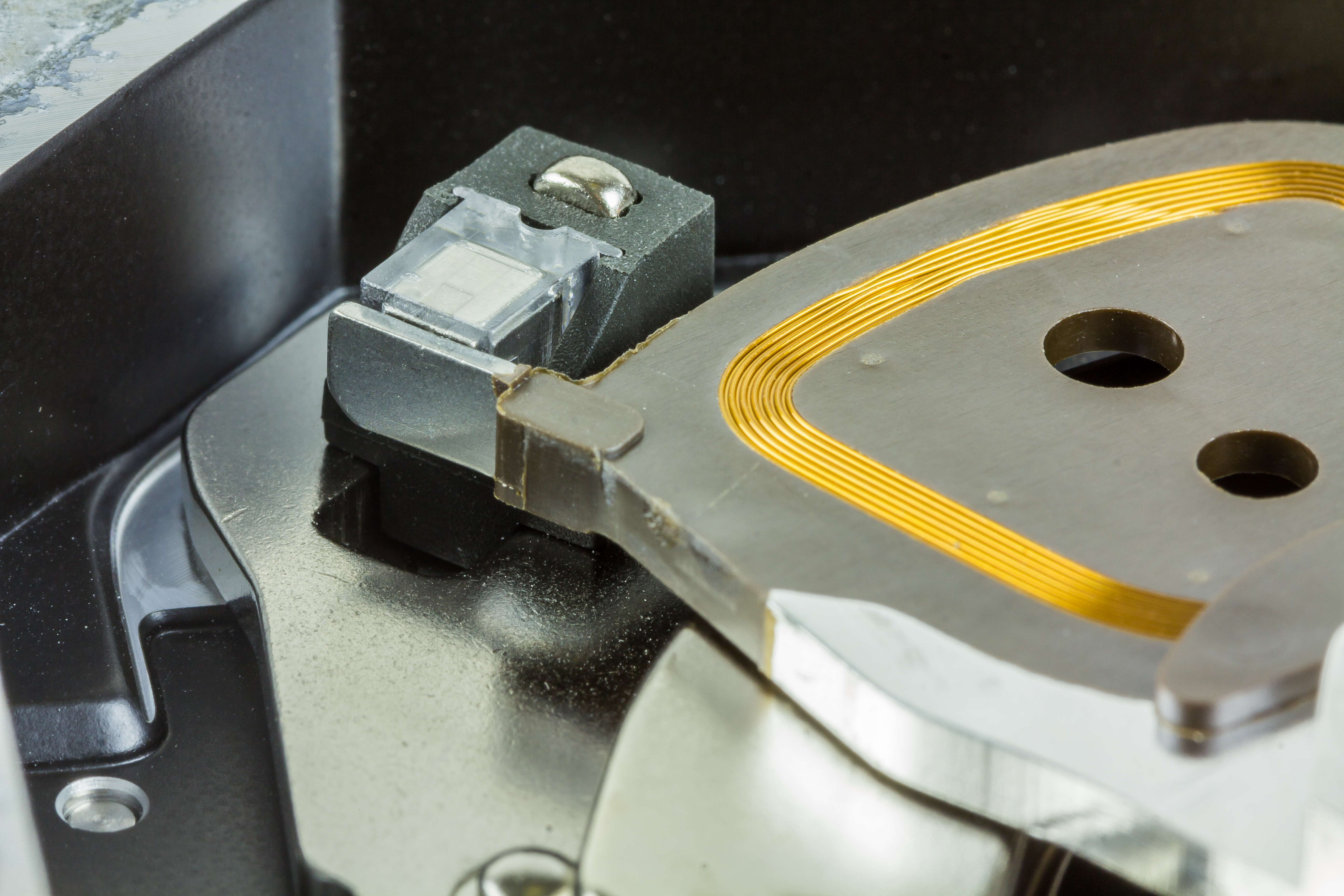 Maxtor DiamondMax Plus 9 80GB - head attached to a magnet, parking position